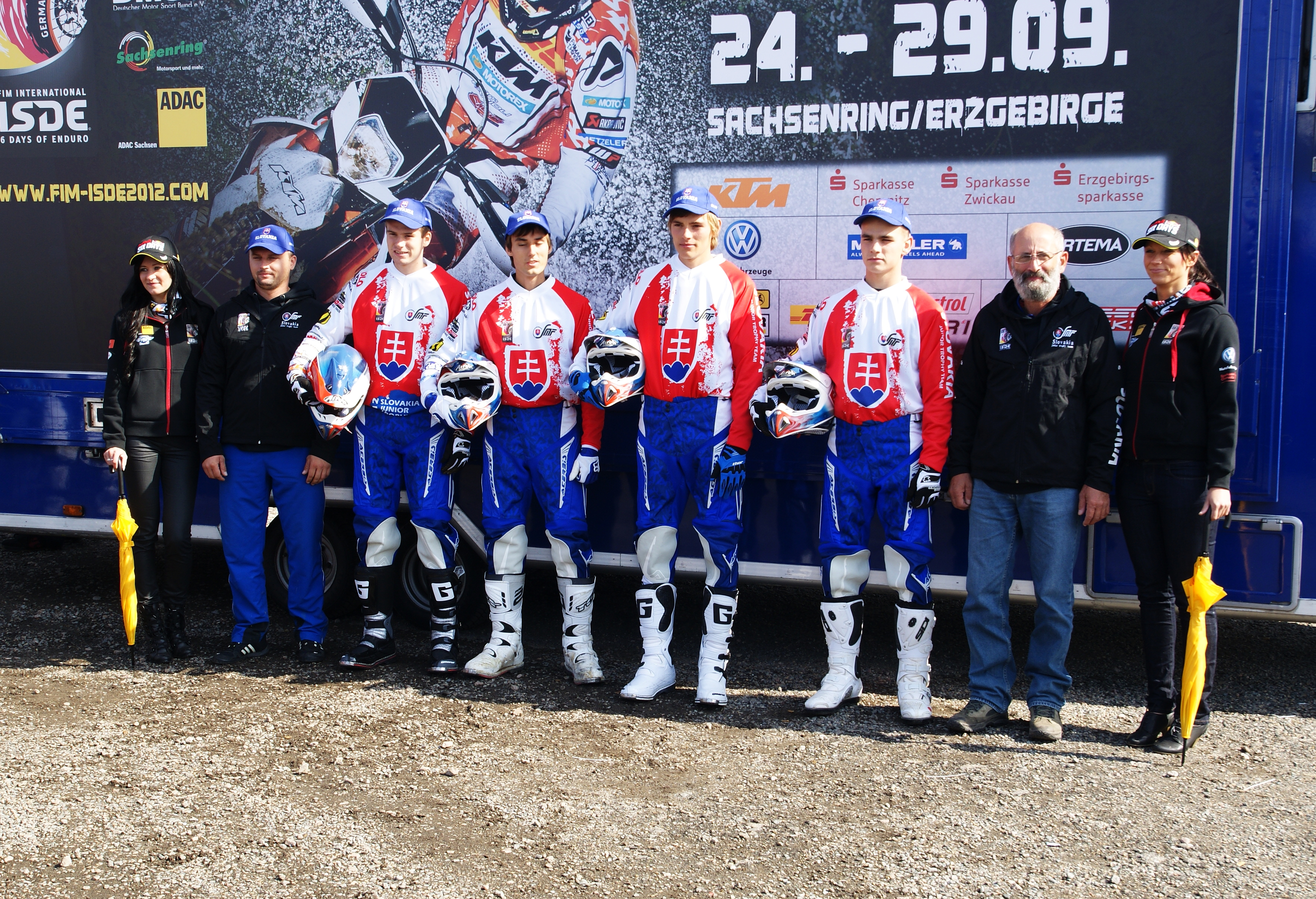 The making of this document was supported by the Community-Budget of Wikimedia Germany. 87. ISDE Saxony 2012 Junior Team Slovakia